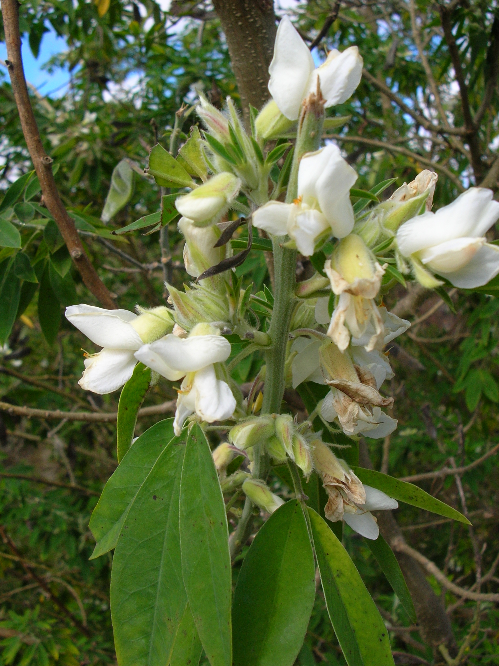 Cytisus palmensis (flowers). Location: Maui, Pohakuokala Gulch